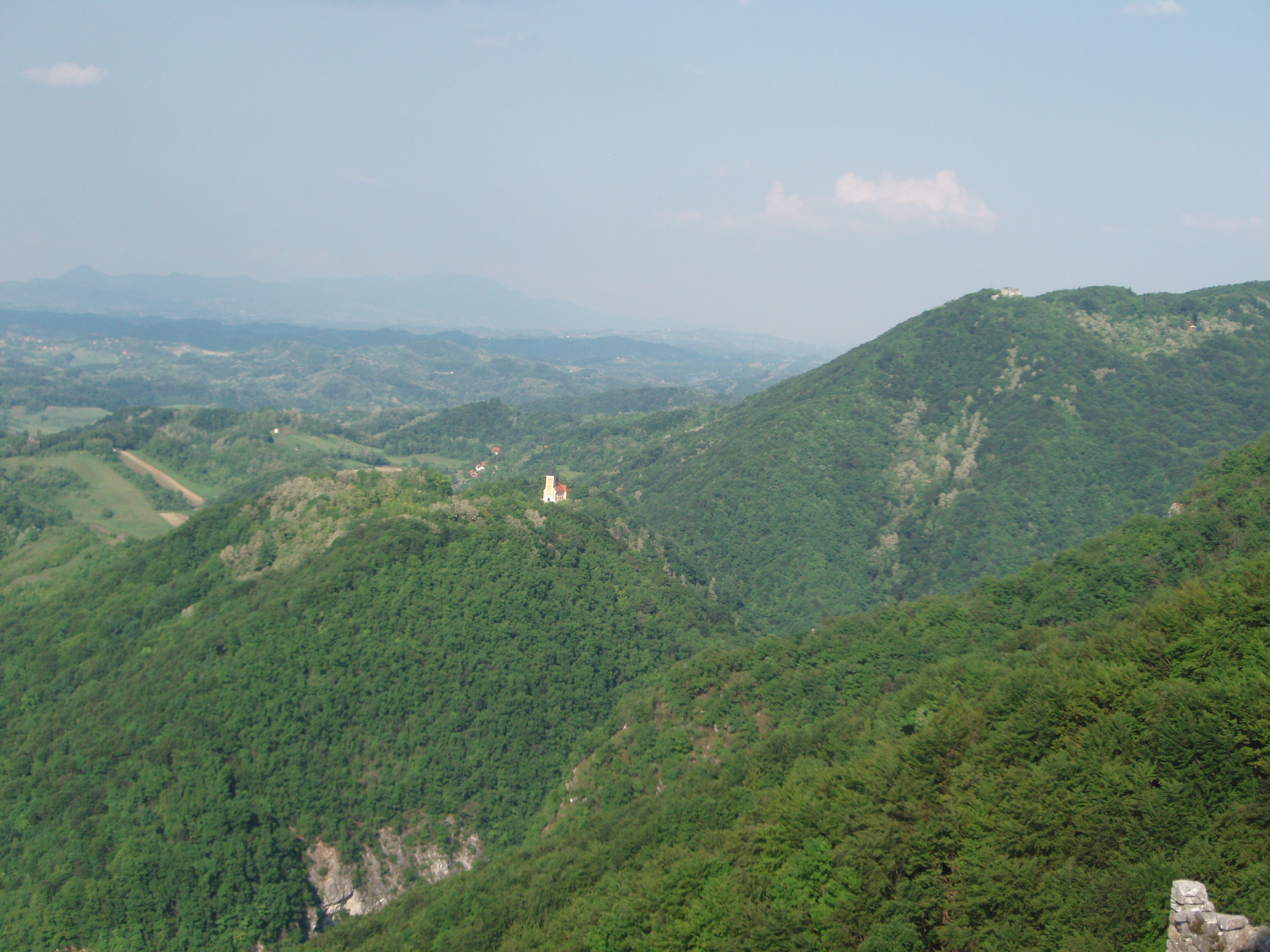 Kunšperk Castle - the view to Our Lady of the Snow Church, Risvica, and the Cesargrad Castle (right)